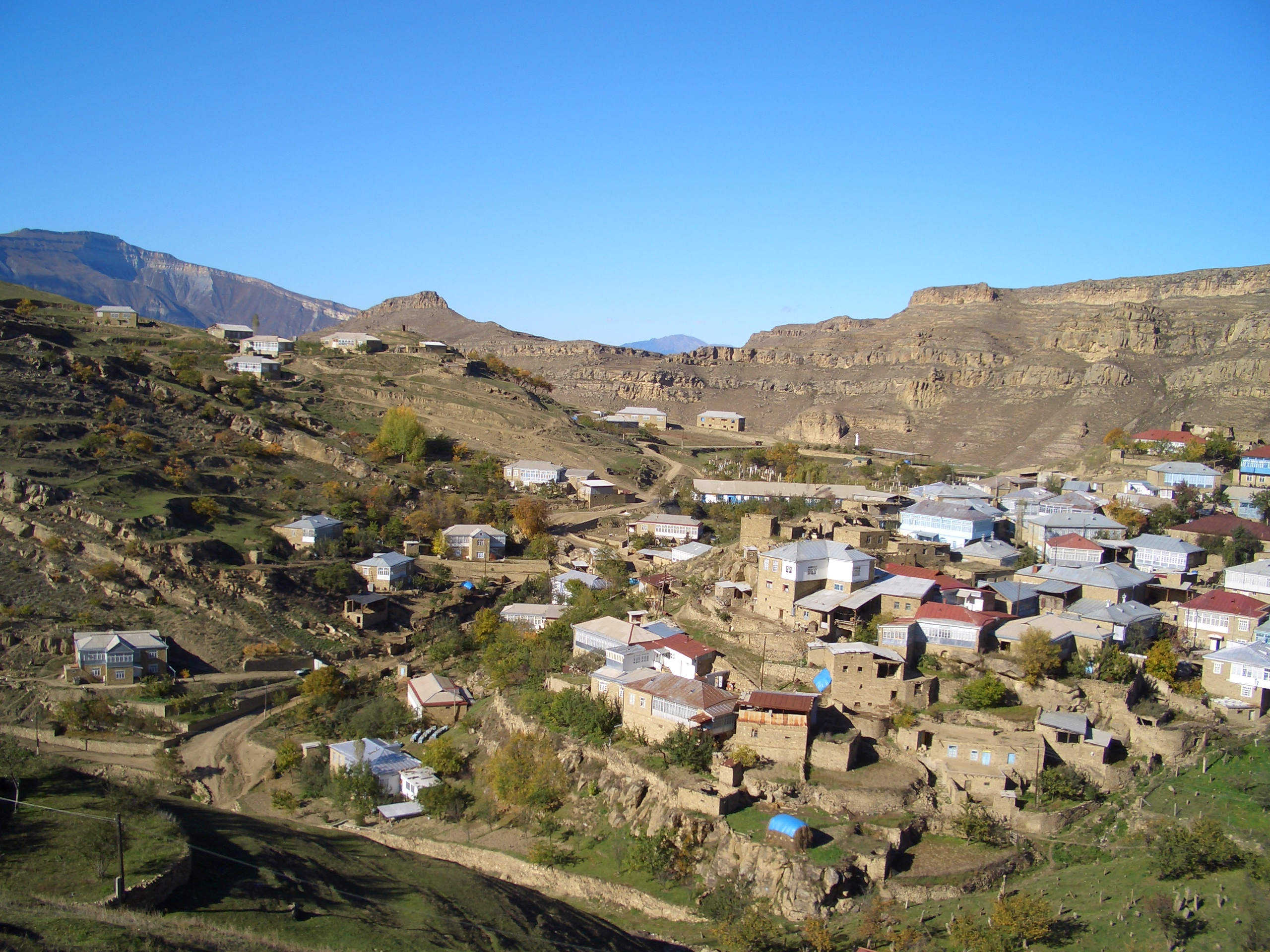 Village of Kundi, southern part, in the Lak district of Daghestan.